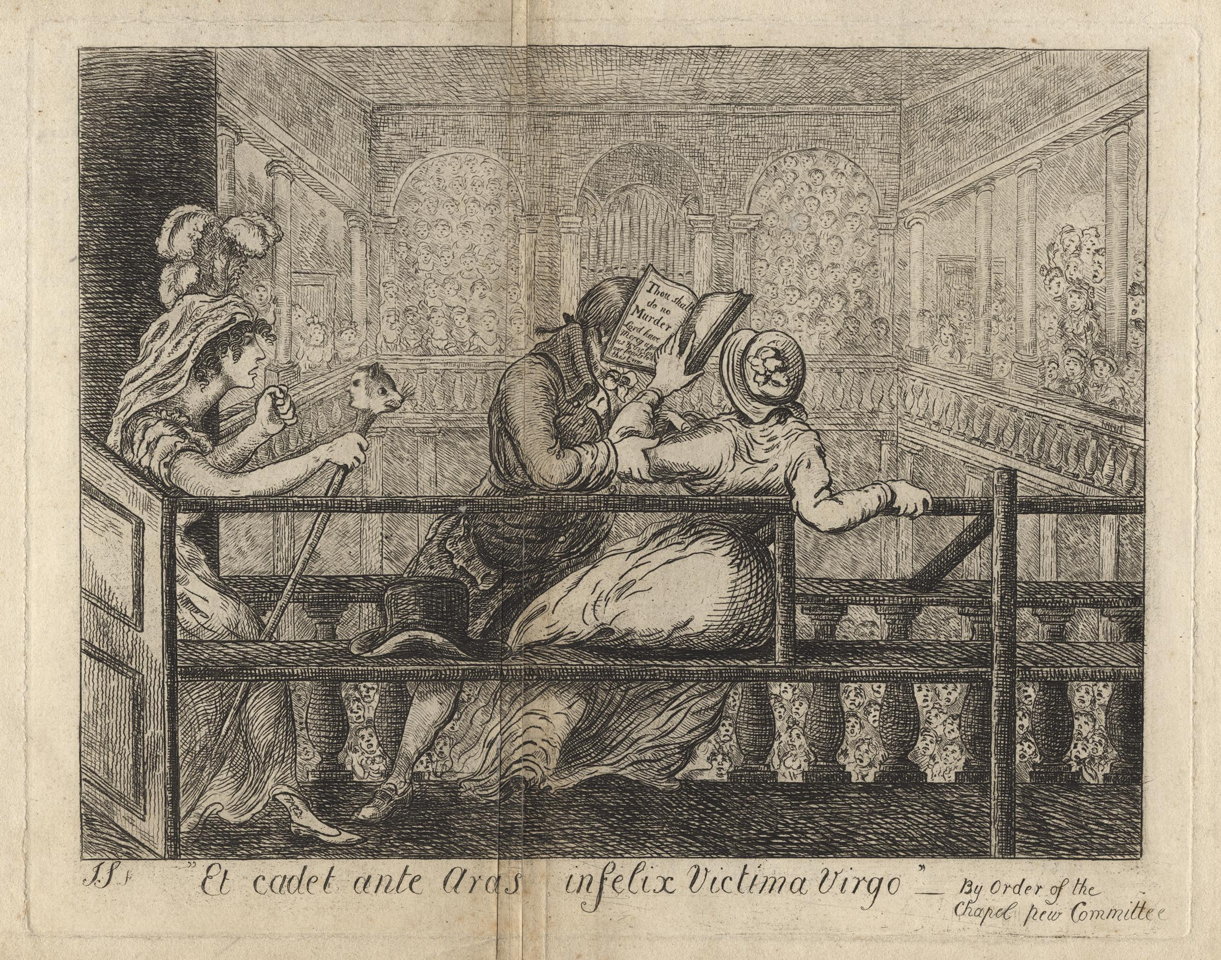 Et cadet ante aras infelix victima virgo, by James Sayers (died 1823). All images in this batch have been confirmed as author died before 1939 according to the official death date listed by the NPG.